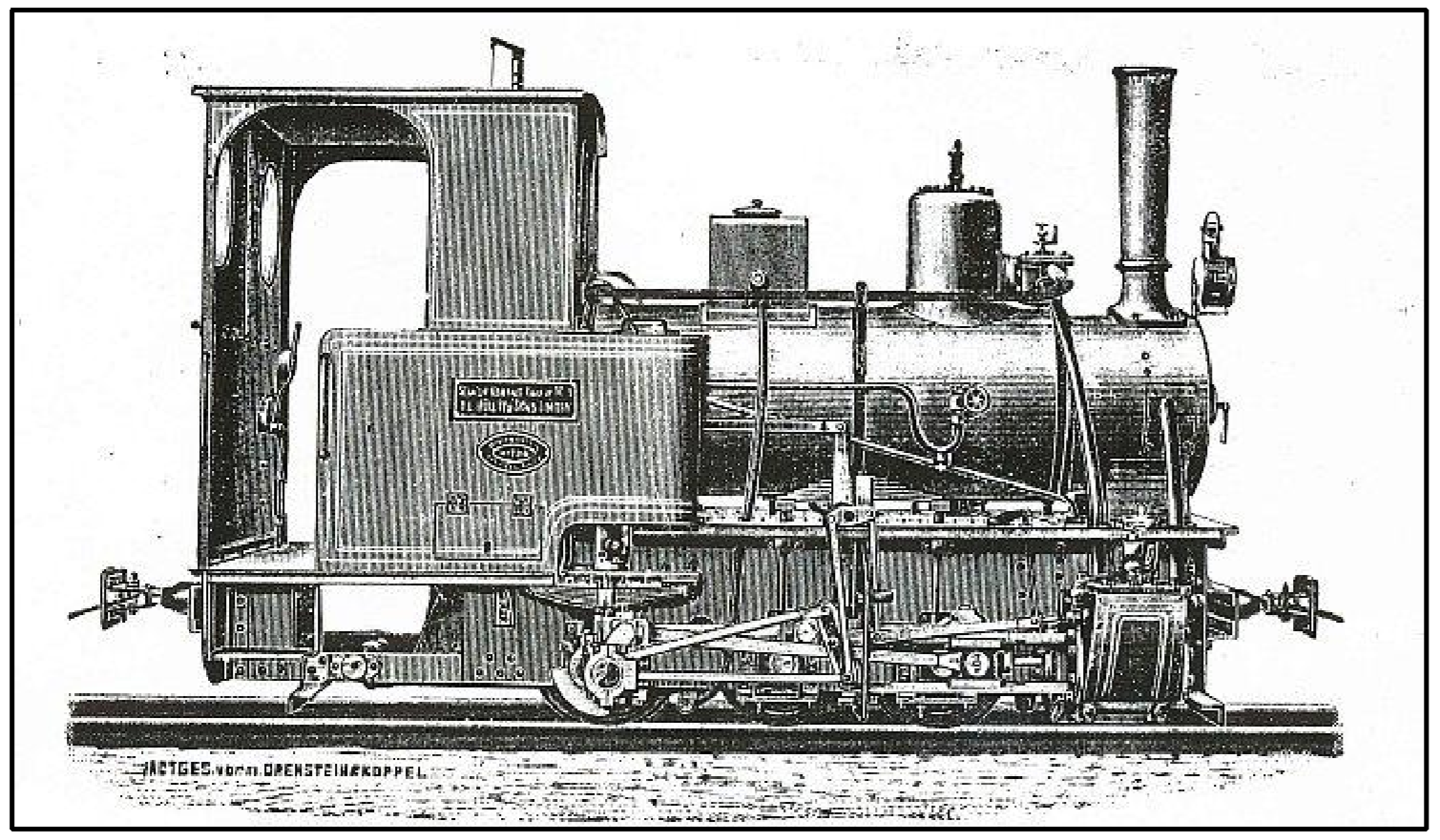 Orenstein & Koppel - Catatloge illustration of an 0-6-0 with outside frames for the Stanger Kearnsey Light Railway